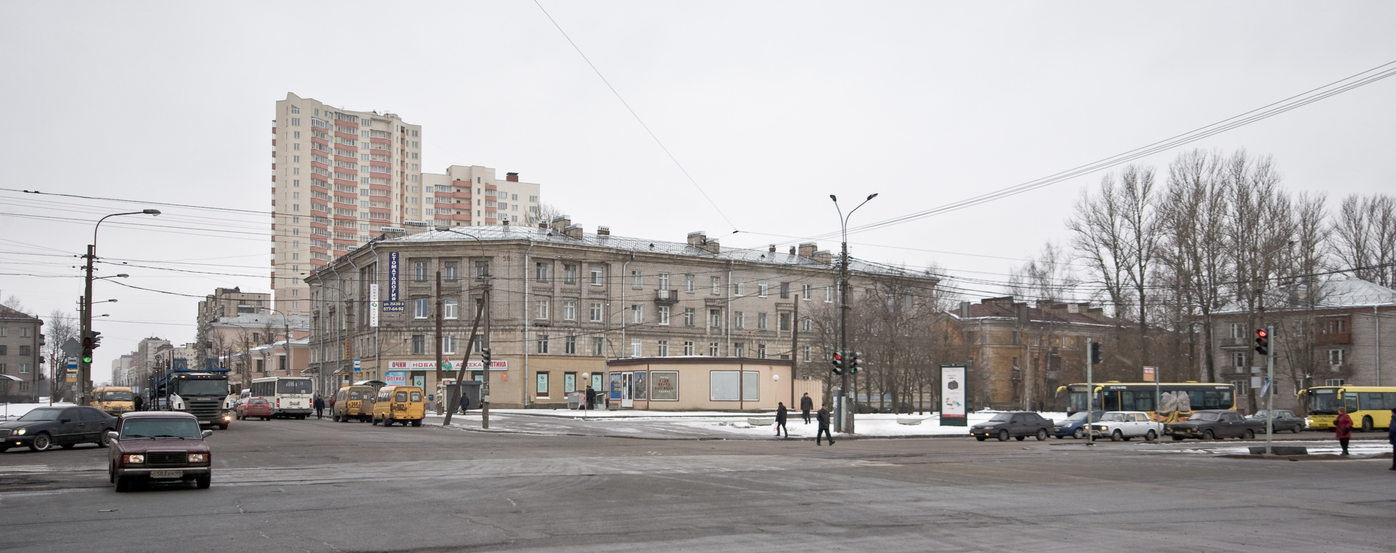 Crossroad of Irinovskiy Prospekt & Kommuny Street (St.-Petersburg)